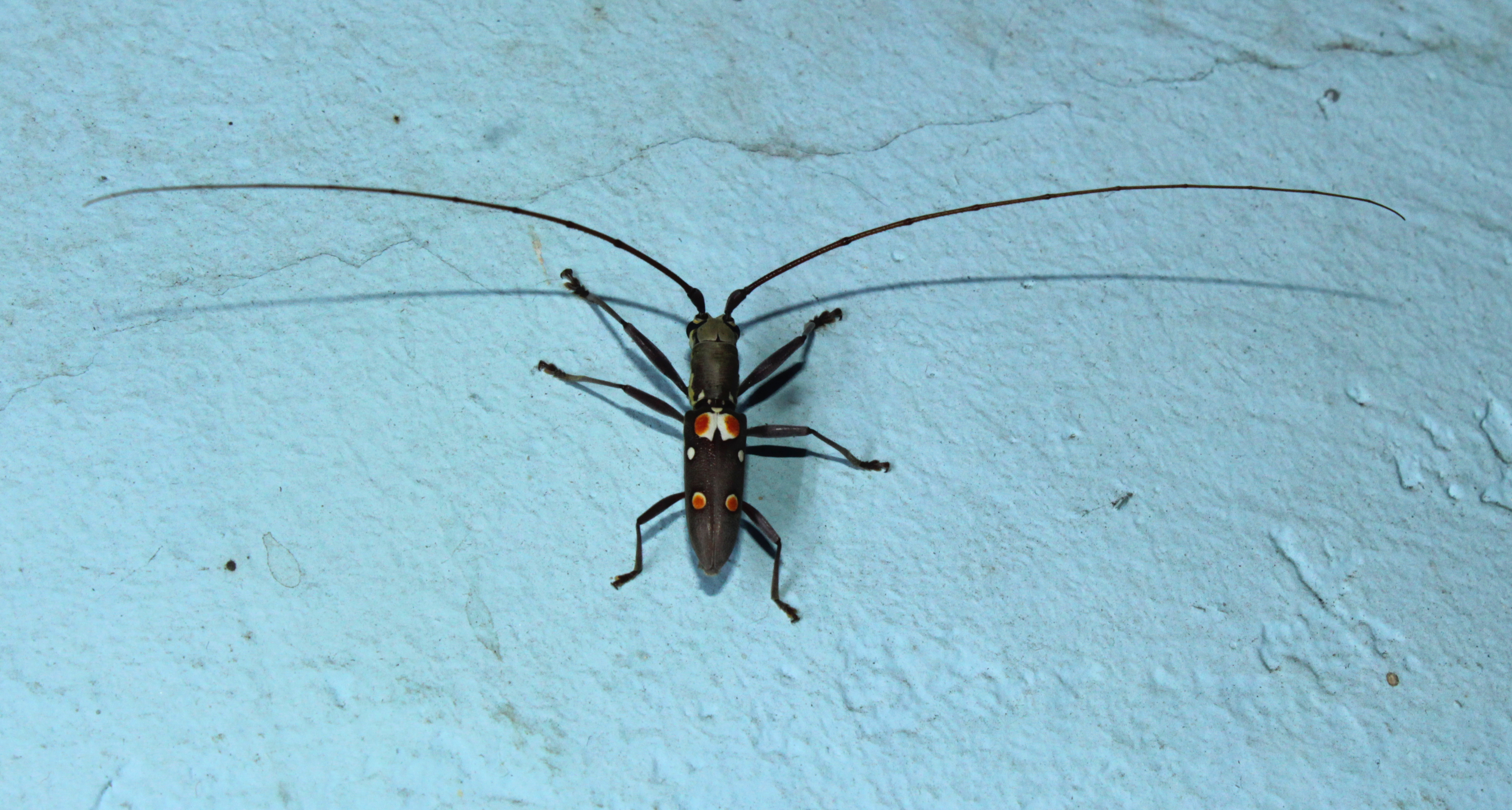 A Longicorn beetle (Olenecamptus bilobus). Photographed near Kanjirappally.